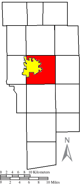 Originally created by the US Census. Modified by myself to highlight the township.